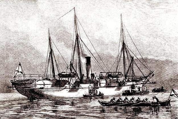 Russian battleship Velikiy Knyaz Konstantin Contemporary etching of the 19th century battleship of the Russian Navy active in 1870s.